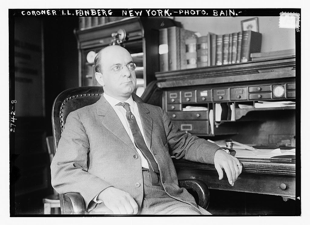 Coroner I.L. Feinberg at the coroner's office in the Criminal Court Building, at Centre And Franklin Streets. Bain News Service,, publisher. Coroner Israel Feinberg - N.Y. [between ca. 1910 and ca. 1915] 1 negative : glass ; 5 x 7 in. or smaller. Notes: Title from unverified data provided by the Bain News Service on the negatives or caption cards. Forms part of: George Grantham Bain Collection (Library of Congress). Format: Glass negatives. Repository: Library of Congress, Prints and Photographs Division, Washington, D.C. 20540 USA, General information about the Bain Collection is available at Persistent URL: Call Number: LC-B2- 2742-8